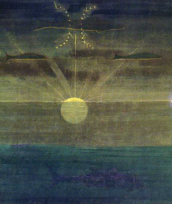 Painting Žuvys (Pisces) in the twelve-paiting cycle Zodiakas (Zodiac).